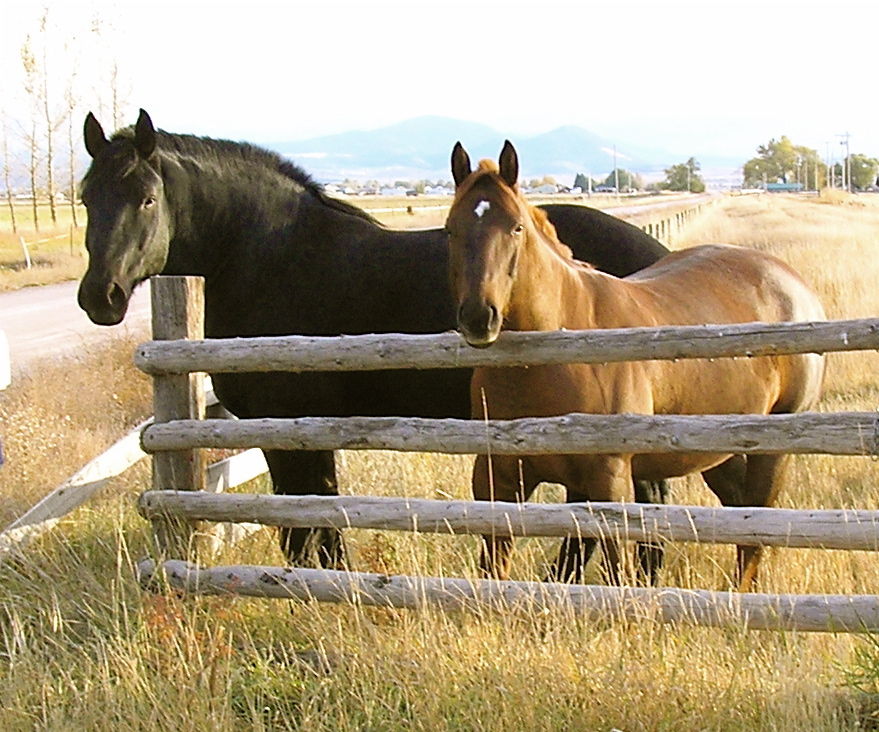 Comparison of a Percheron-type draft horse to a Quarter Horse-type light riding horse. The Quarter horse is roughly 15.1=15.2 and rather fat and stocky, himself!